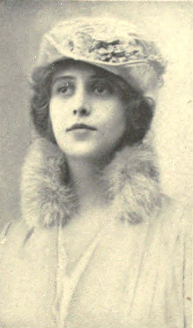 A young white woman wearing a hat, fur collar, light colored dress.